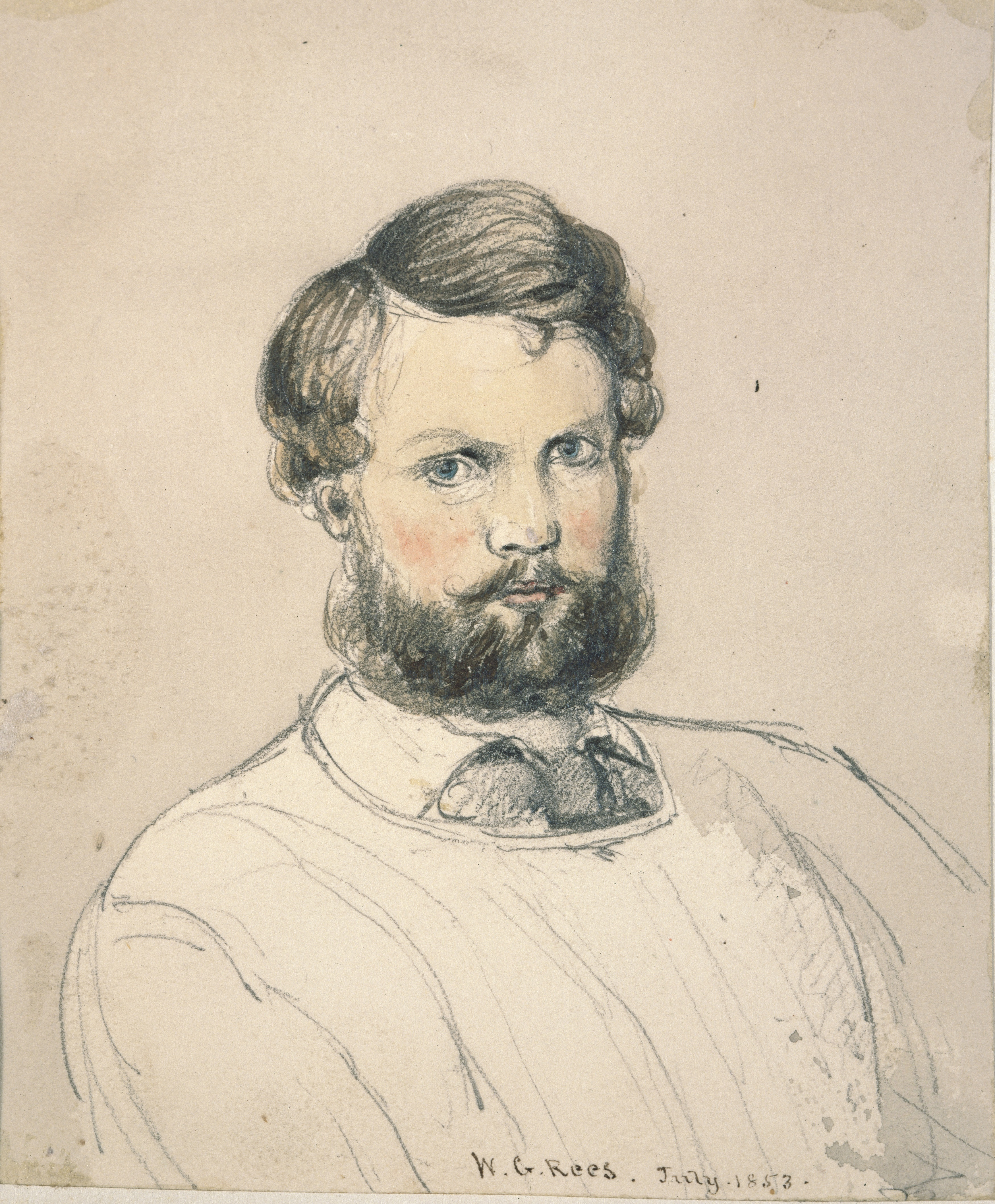 Frontal half-length self-portrait of artist, William Gilbert Rees. He is shown bearded and wearing a smock.